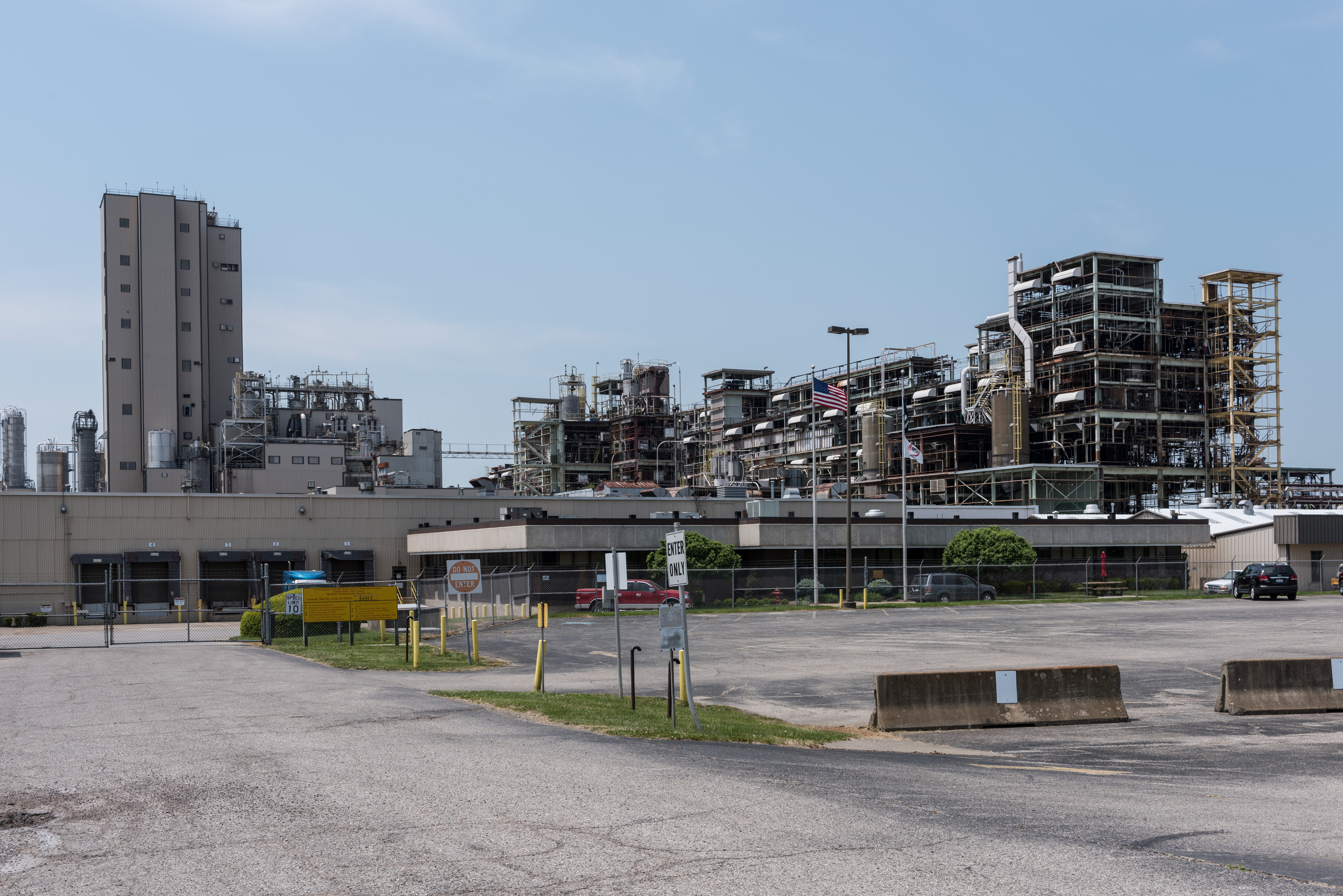 Polymer plant along the Ohio River near the settlement of Apple Grove in Mason County, West Virginia